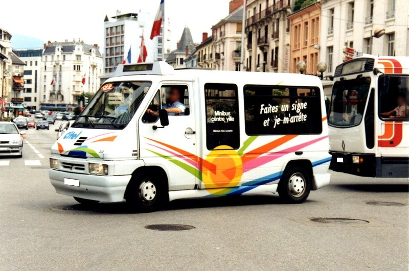 An electric bus Renault Master of the Stac in Chambéry in 2002.